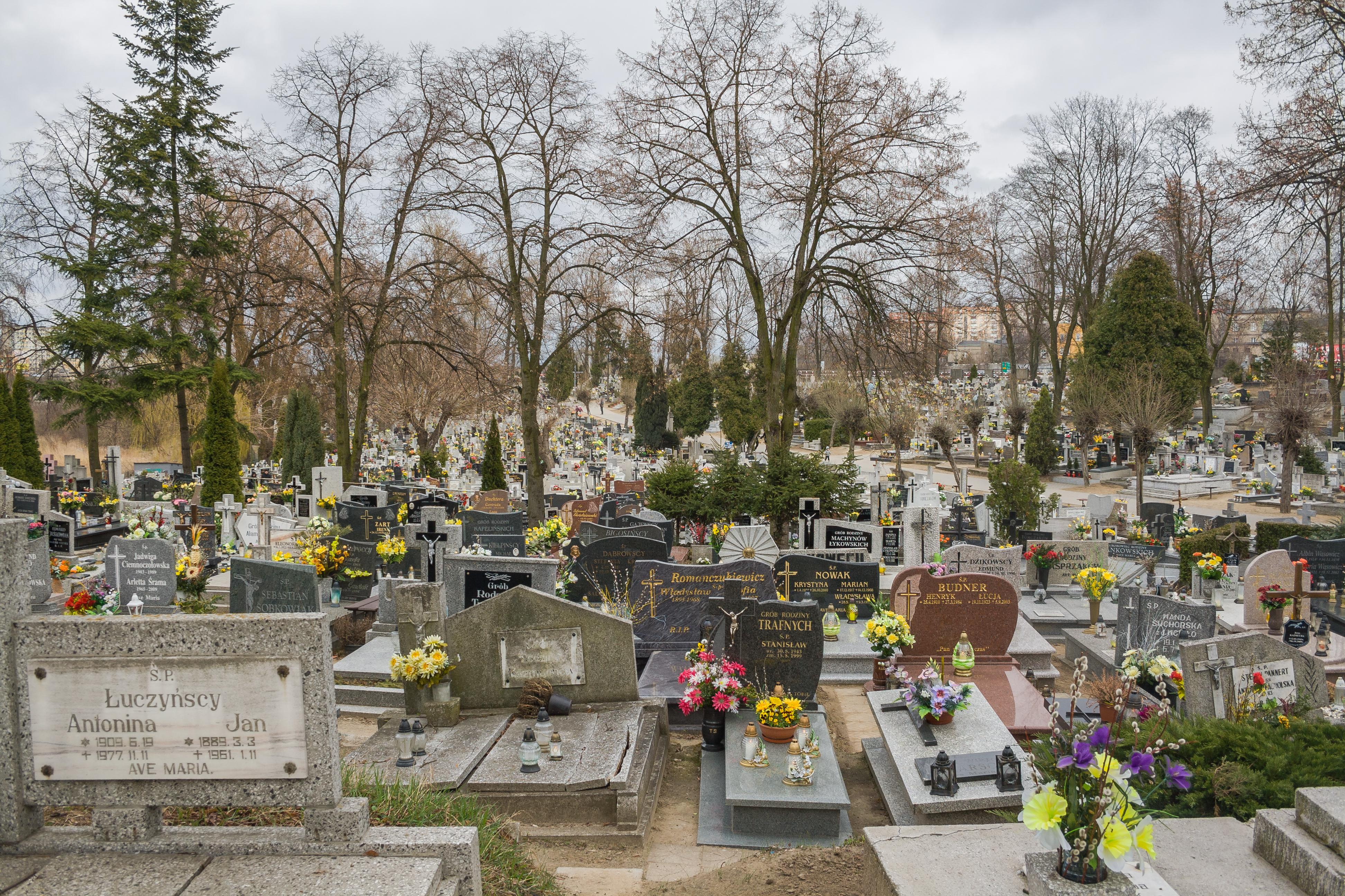 Holy Cross Cemetery, Gniezno, Poland